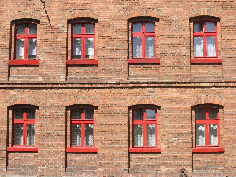 The typical old windows from Upper Silesia - Ruda Śląska City